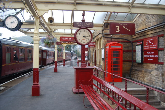 Keighley Station, KWVR